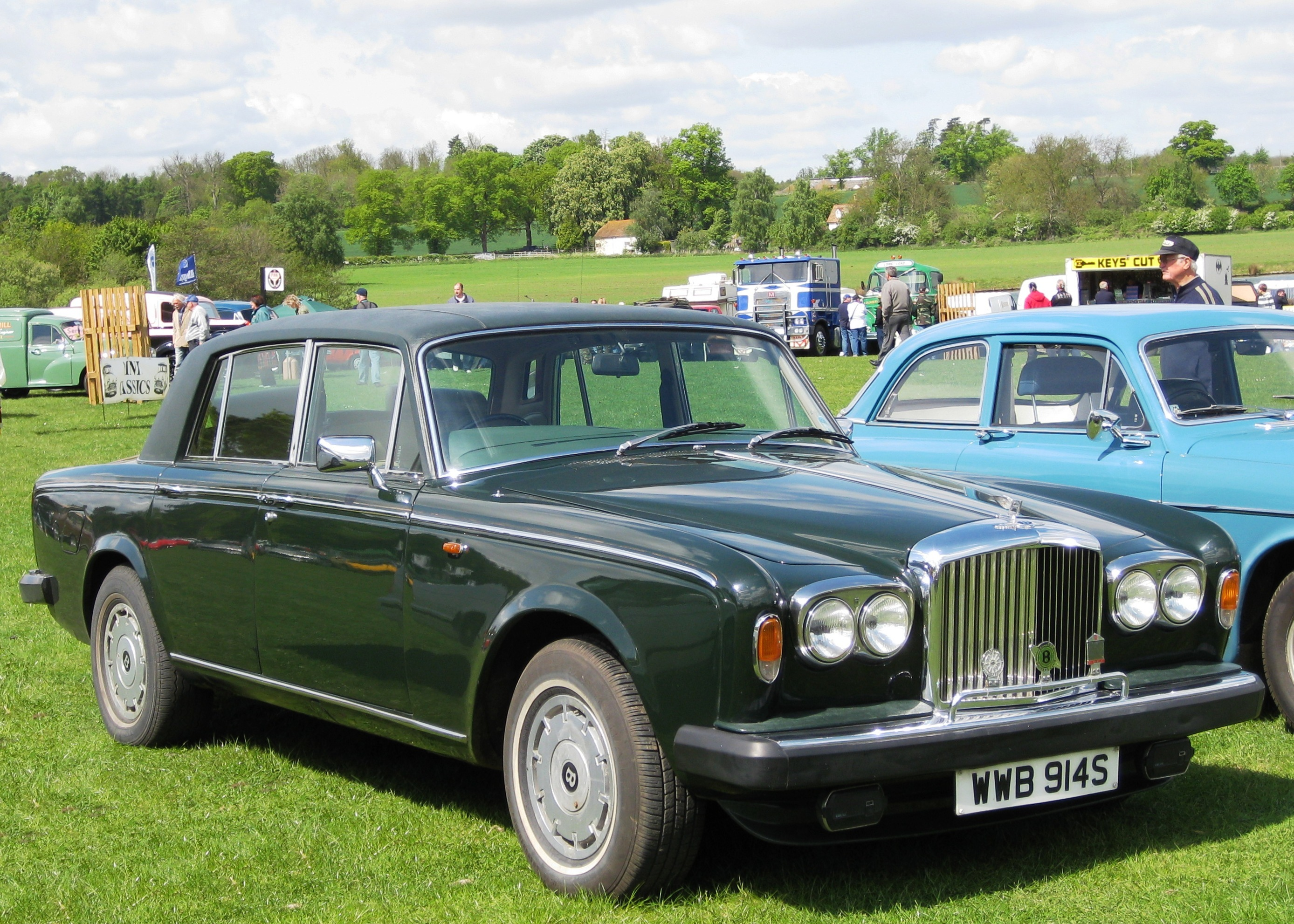 Bentley T2 near Biggleswade